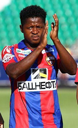 Sekou Oliseh